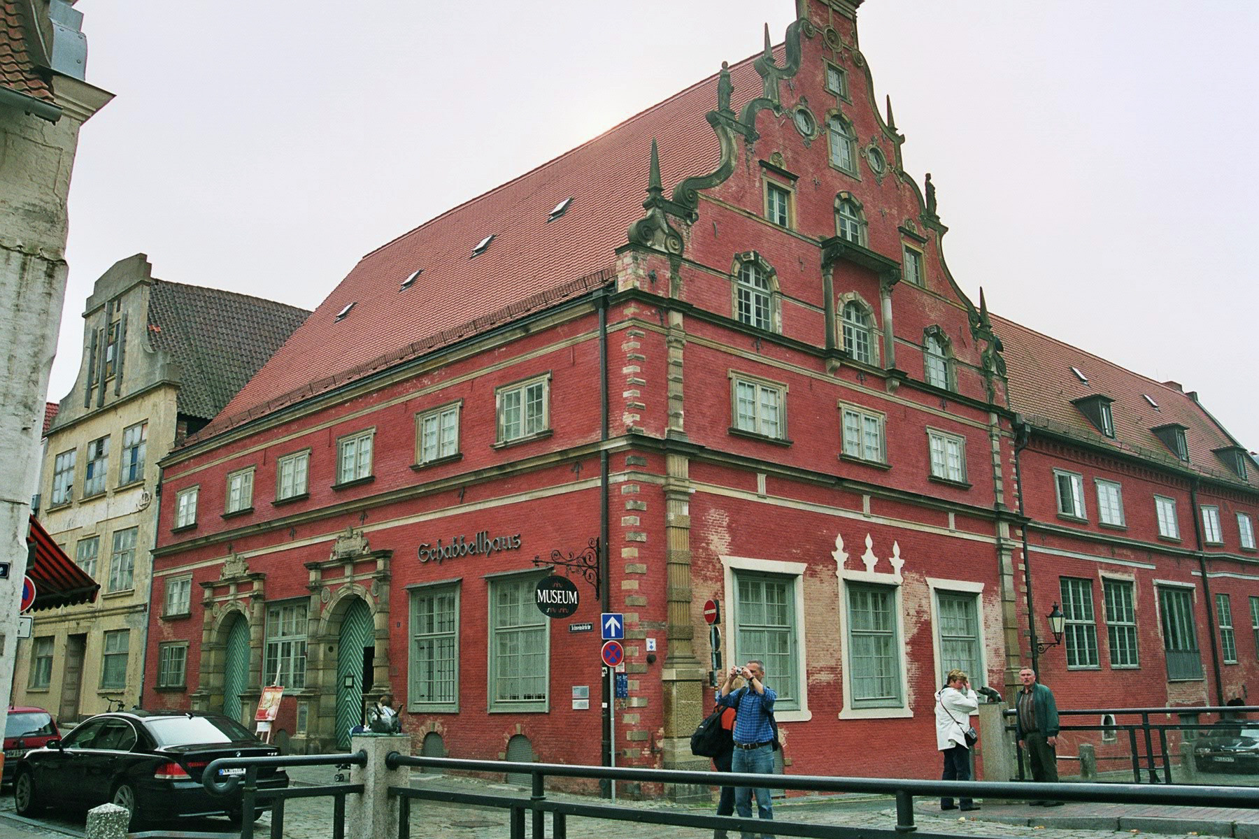 This image shows the "Schabbellhouse" (named after a former mayor) in Wismar in Mecklenburg-Vorpommern, Germany. The building was built between 1569-71 and it is nowadays used as museum of local history.